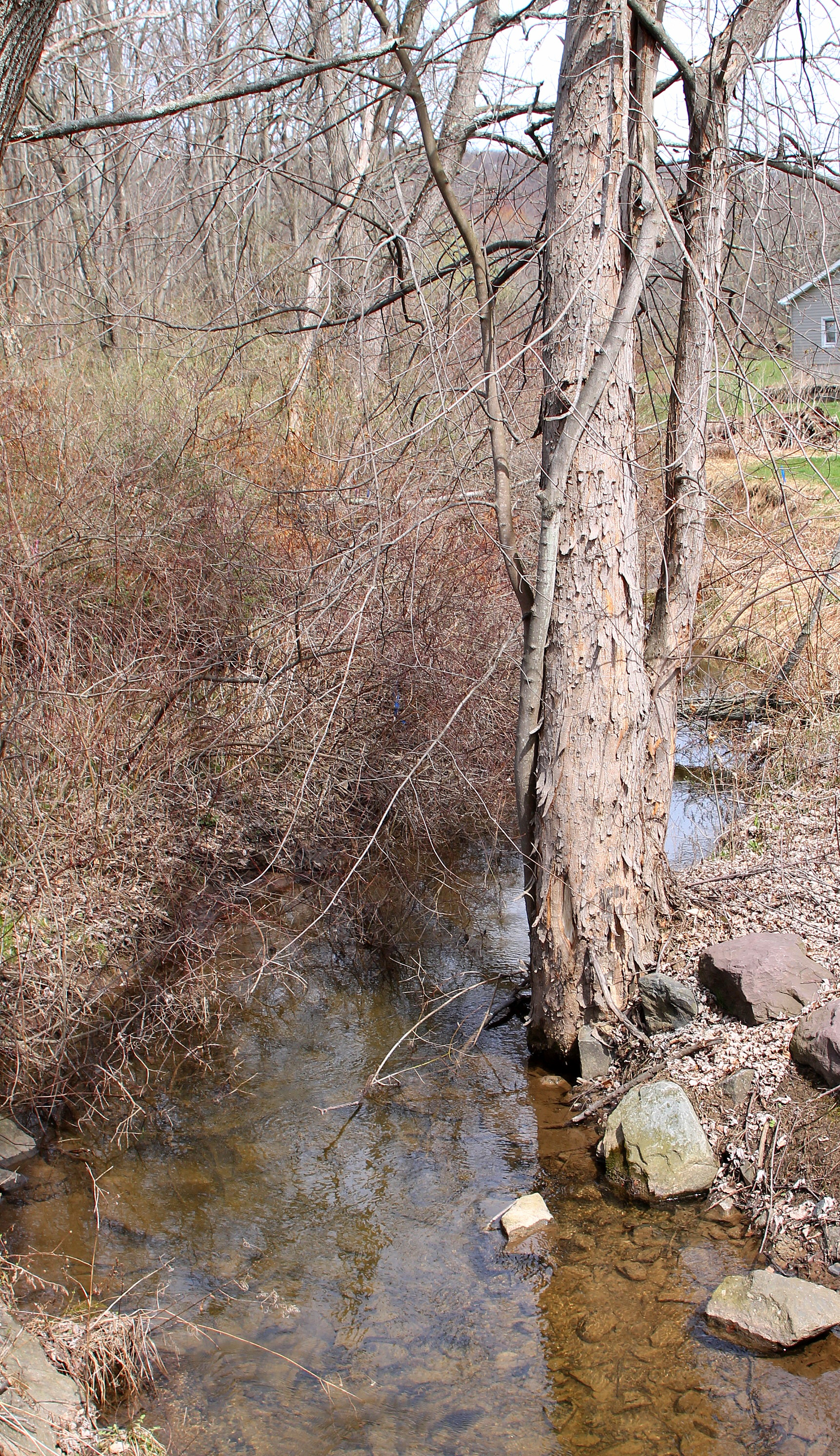 Salem Creek looking upstream, April 2015